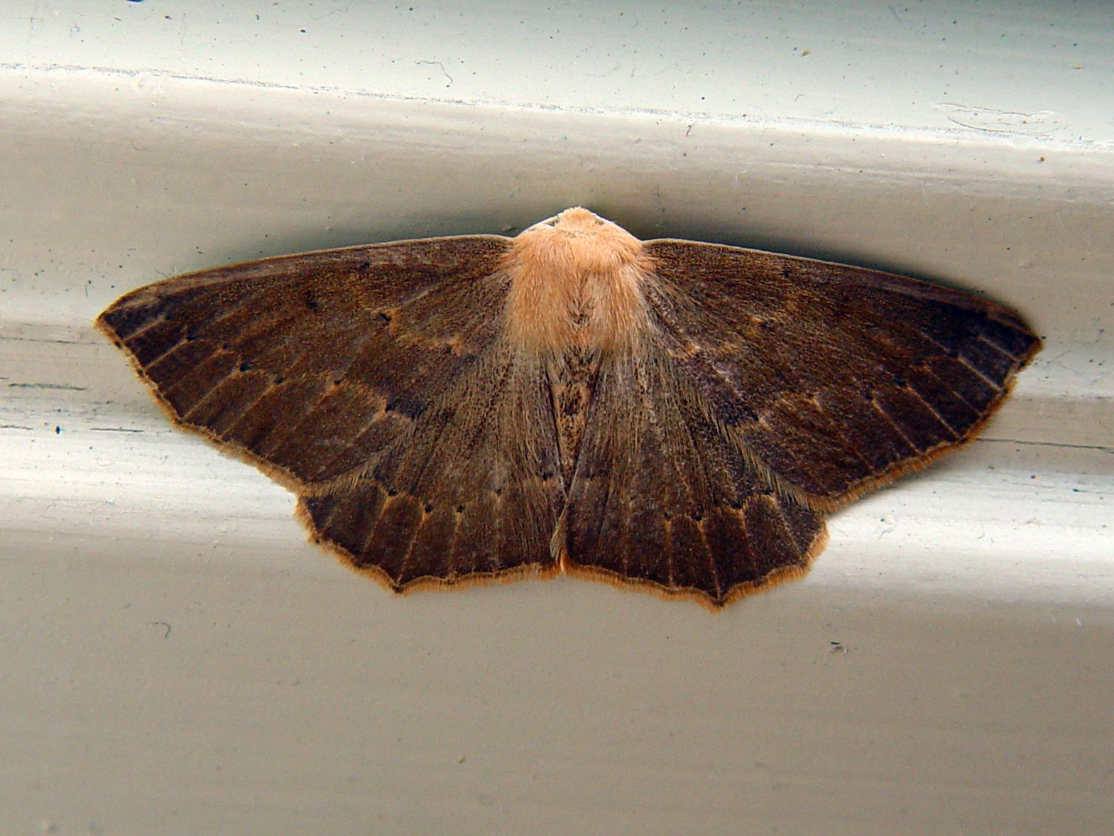 Omnivorous Looper (Sabulodes aegrotata) Family: Geometridae Tribe: Ourapterygini Note: It can be found almost any time of the year and is considered to be a pest in California. There seems to be a lot of variation in the amount of brown in this species. Location: Point Reyes National Seashore , CA ________ Thanks to GEORGeous nature and @w, c'mon for their help in ID-ing this moth.